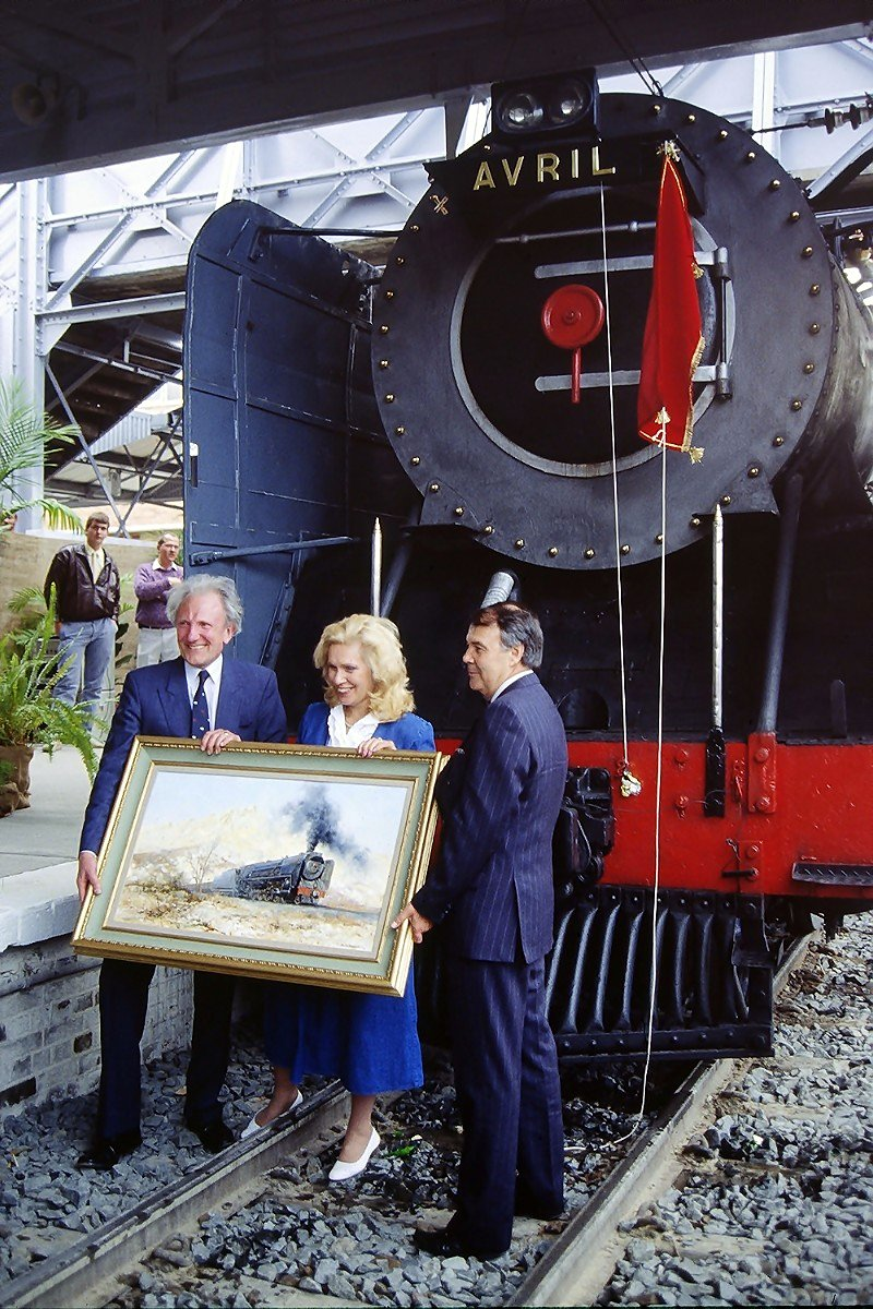 Kimberley railway station, South Africa. Artist and steam enthusiast David Shepherd receives a SAR class 15F locomotive in exchange for his painting 'City of Germiston'. In front of the loco David Shepherd, his wife Avril and a Transnet/Spoornet officer (from left to right). The locomotive No 3052 is called 'Avril', named after Shepherds wife.